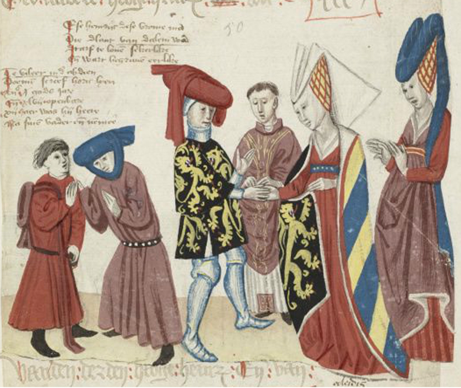 Marriage of Henry III of Brabant and Adelaide of Burgundy